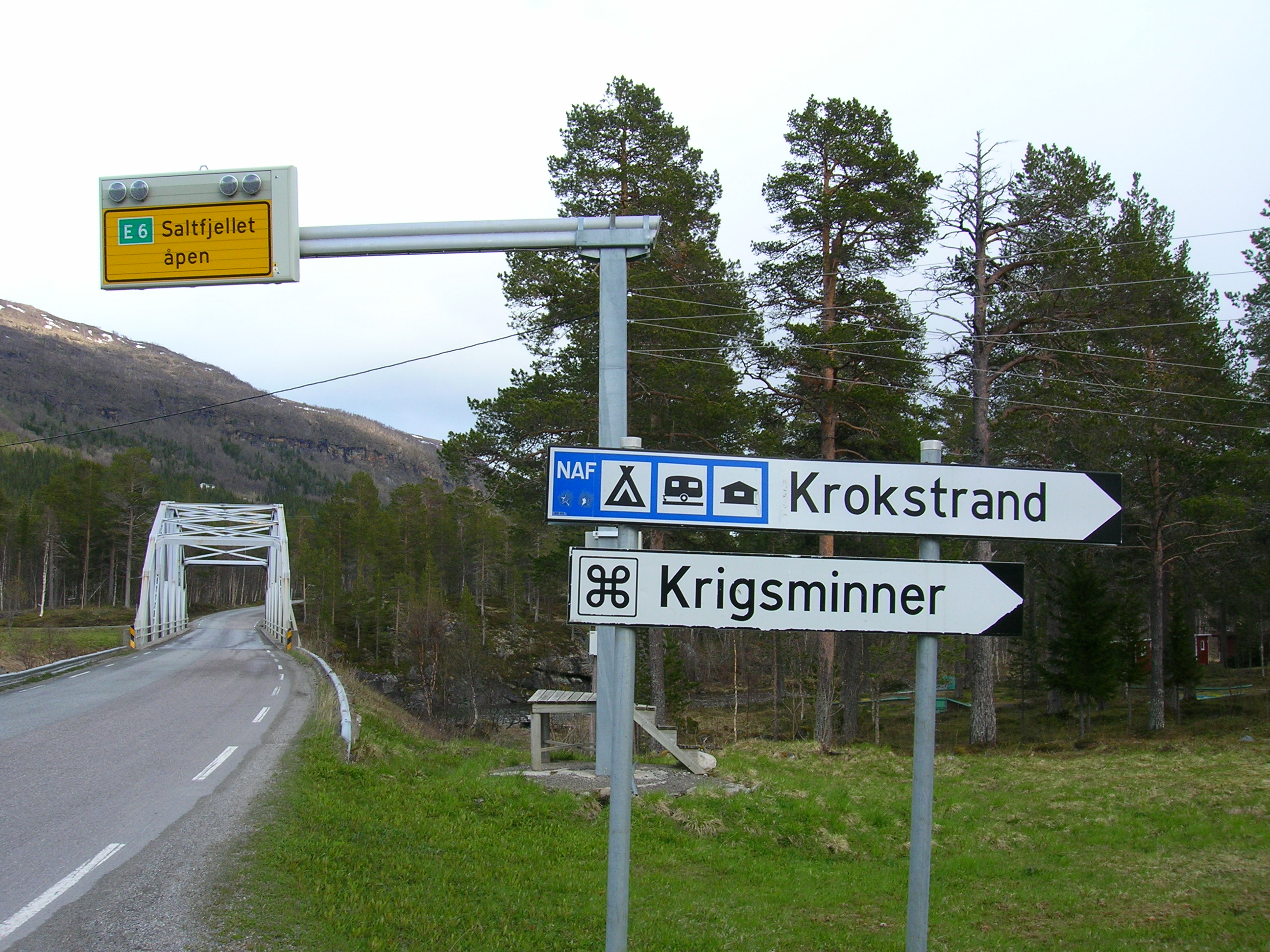 The former bridge over Ranelva at Krokstrand, Dunderlandsdalen, in Rana municipality, county of Nordland, Norway. The bridge was demolished on 7 February, 2020. Photo 27 May, 2007 with a Nikon Coolpix 5600 5,1 Megapixel camera.